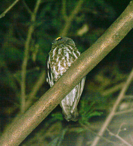 Brown Hawk Owl Ninox scutulata at Samsing in Darjeeling district of West Bengal, India.